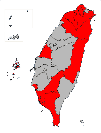 confirmed death and infections confirmed infections unconfirmed infections